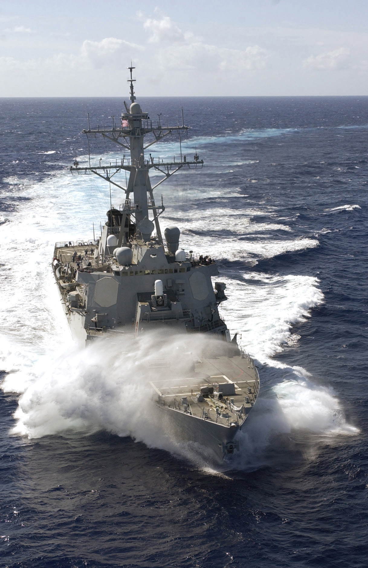 A wave breaks over the bow of the destroyer USS Russell (DDG 59) as it plows through the South Pacific Ocean on Feb. 9, 2007. The Russell is on deployment as part of the USS Ronald Reagan Carrier Strike Group which is supporting U.S. military operations in the Western Pacific. DoD photo by Chief Petty Officer Spike Call, U.S. Navy. (Released)